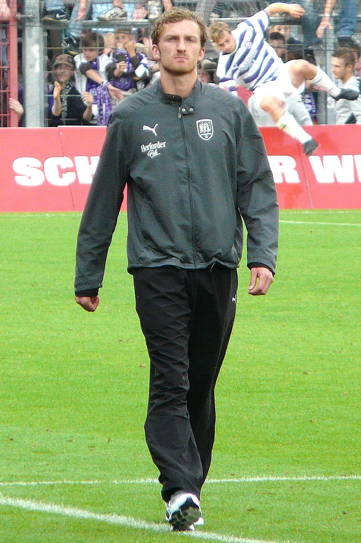 Domenic Peitz as Player from the VfL Osnabrück